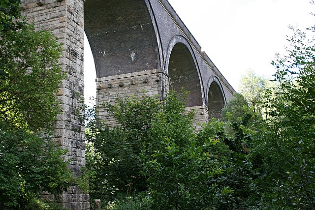 Truro Viaduct from Daubuz Moors. Daubuz Moors is a nature reserve stretching up the river valley from the viaduct northwards. The viaduct carries the main railway line.